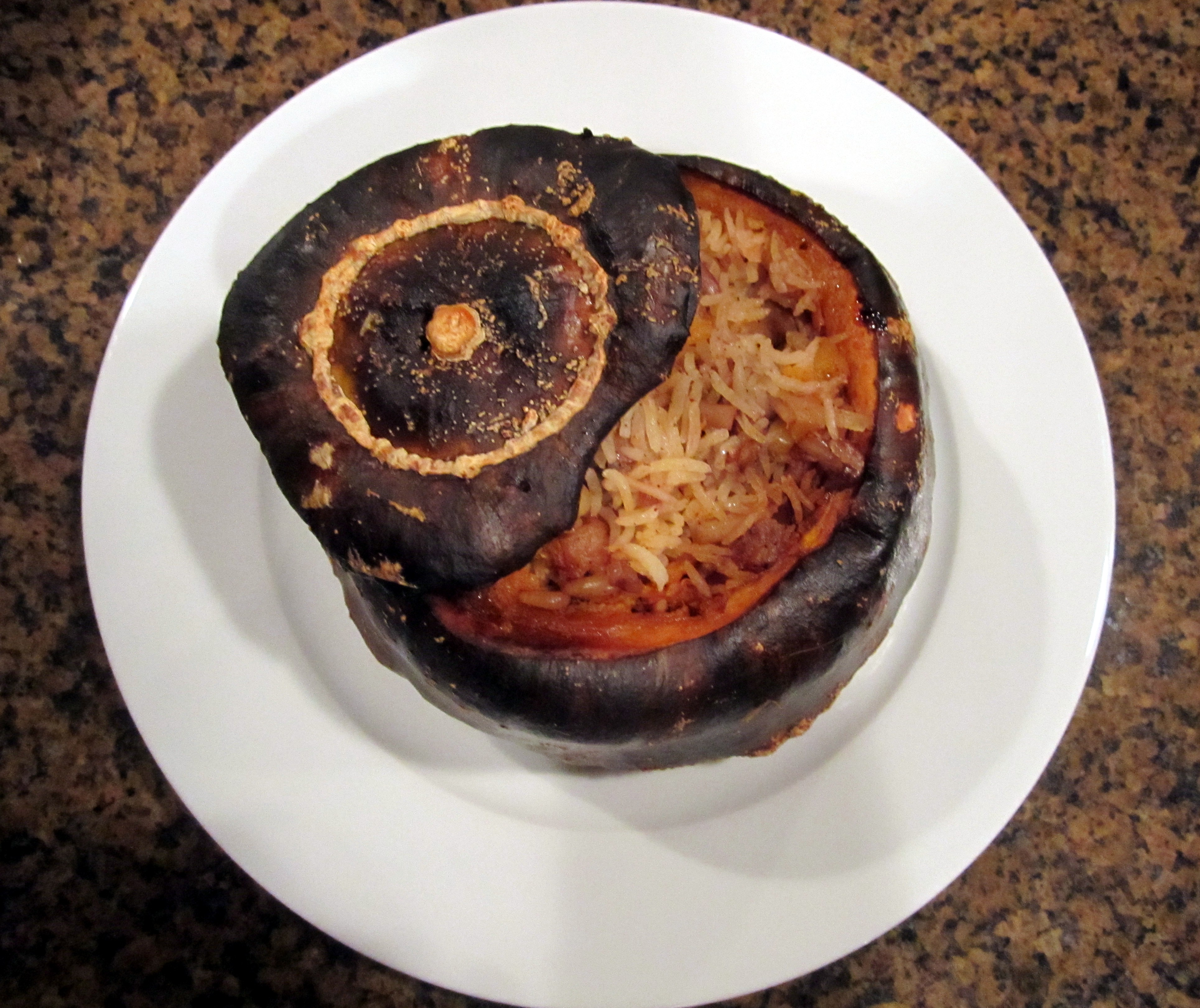 Mini ghapama made with butternut squash (Armenian dish made with baked pumpkin stuffed with rice, nuts, and dried fruits)